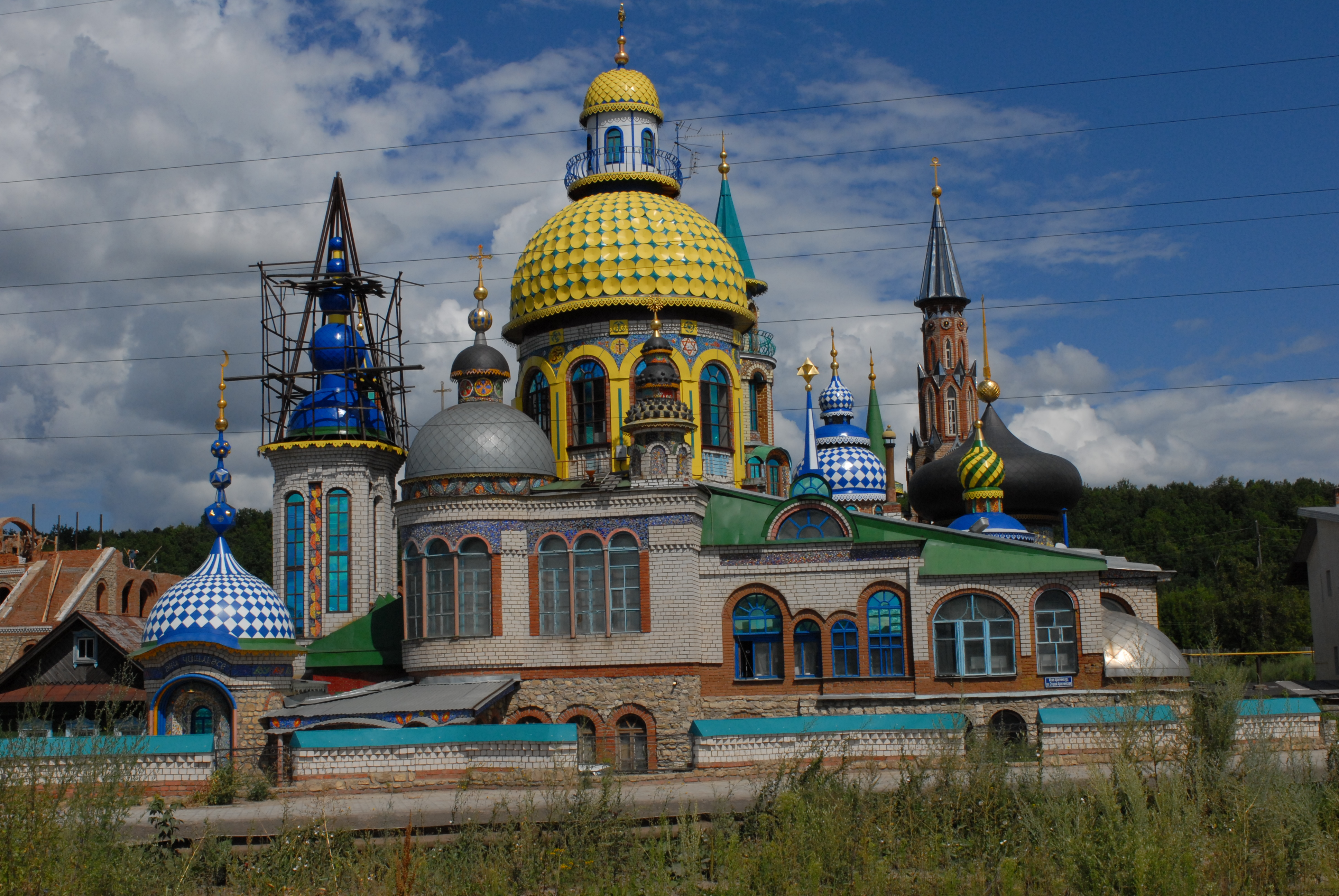 All Religions Temple in Kazan. A building and cultural center build by the local artist Ildar Xanov.